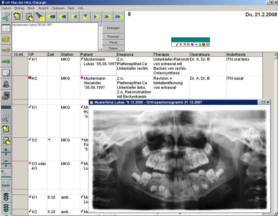 Time scheduling module of the CPA software